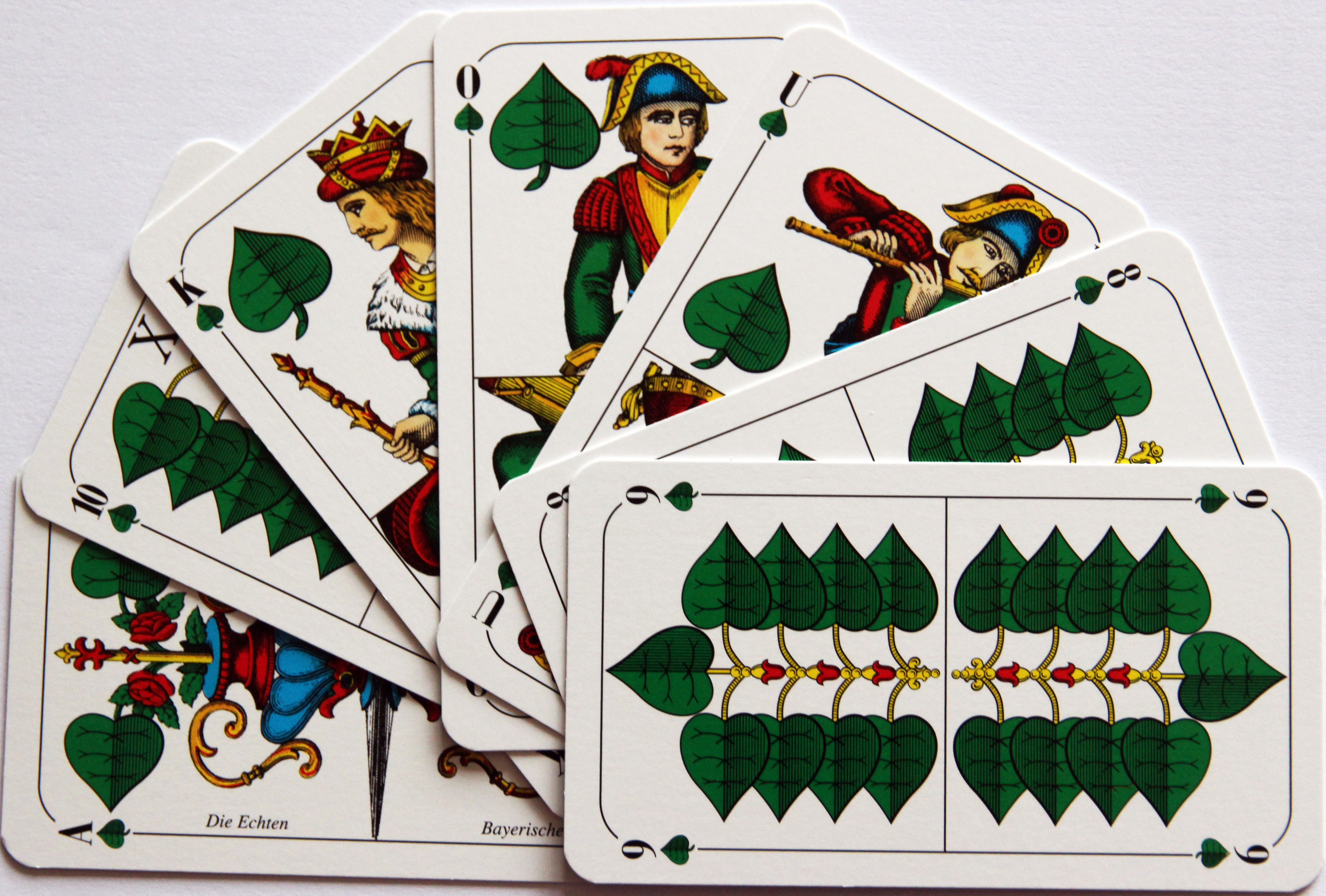 The suit of Leaves from a Bavarian pattern, German-suited pack